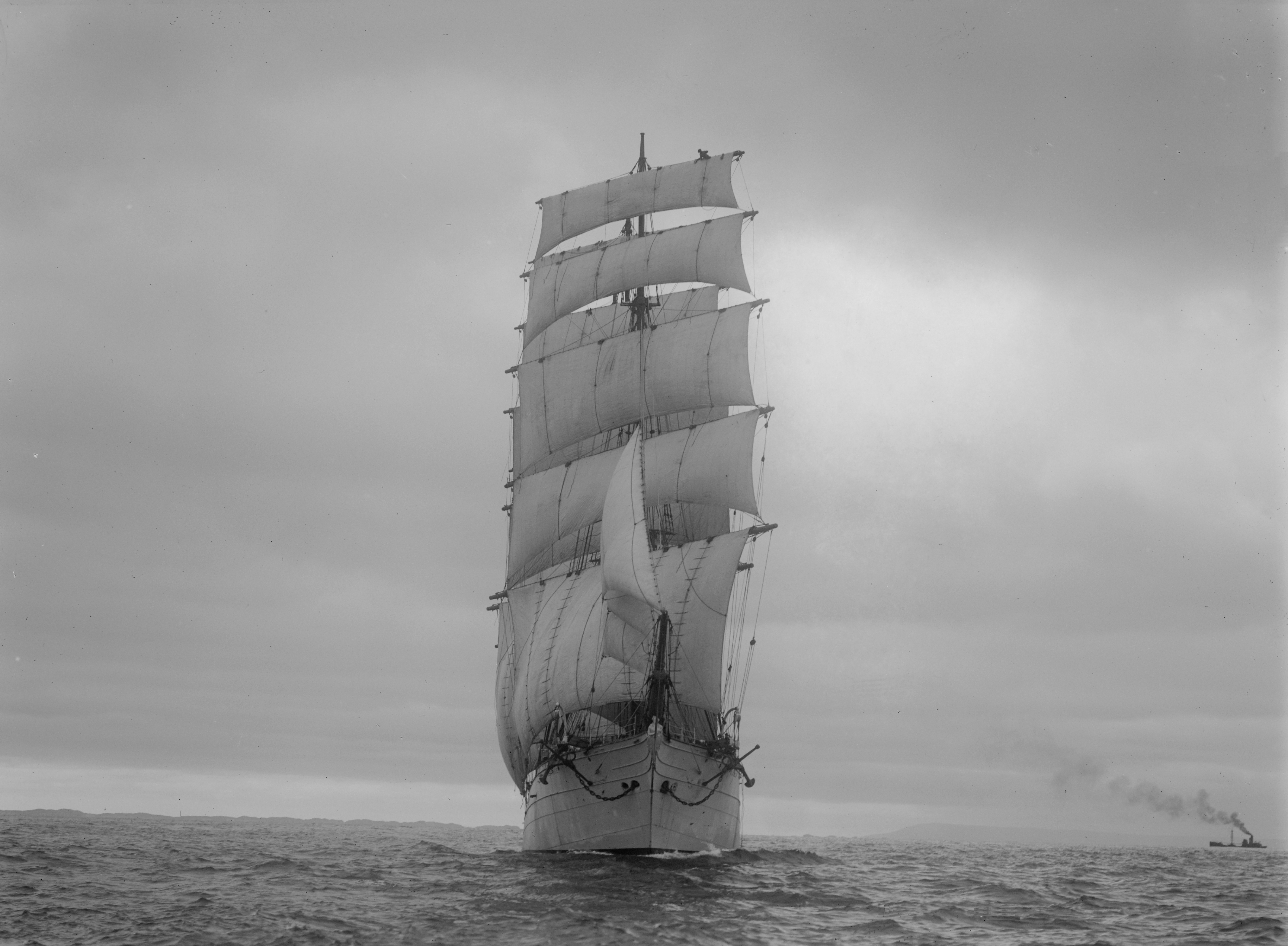 Four-masted barque „Beatrice“ Looking across water towards four masted barque from the bow.